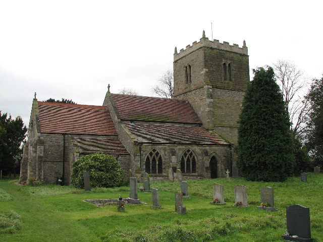 Saint Wifrid's Church, Screveton.